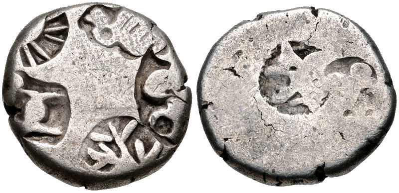 Mauryan Empire. temp. Salisuka or later. Circa 207-194 BC